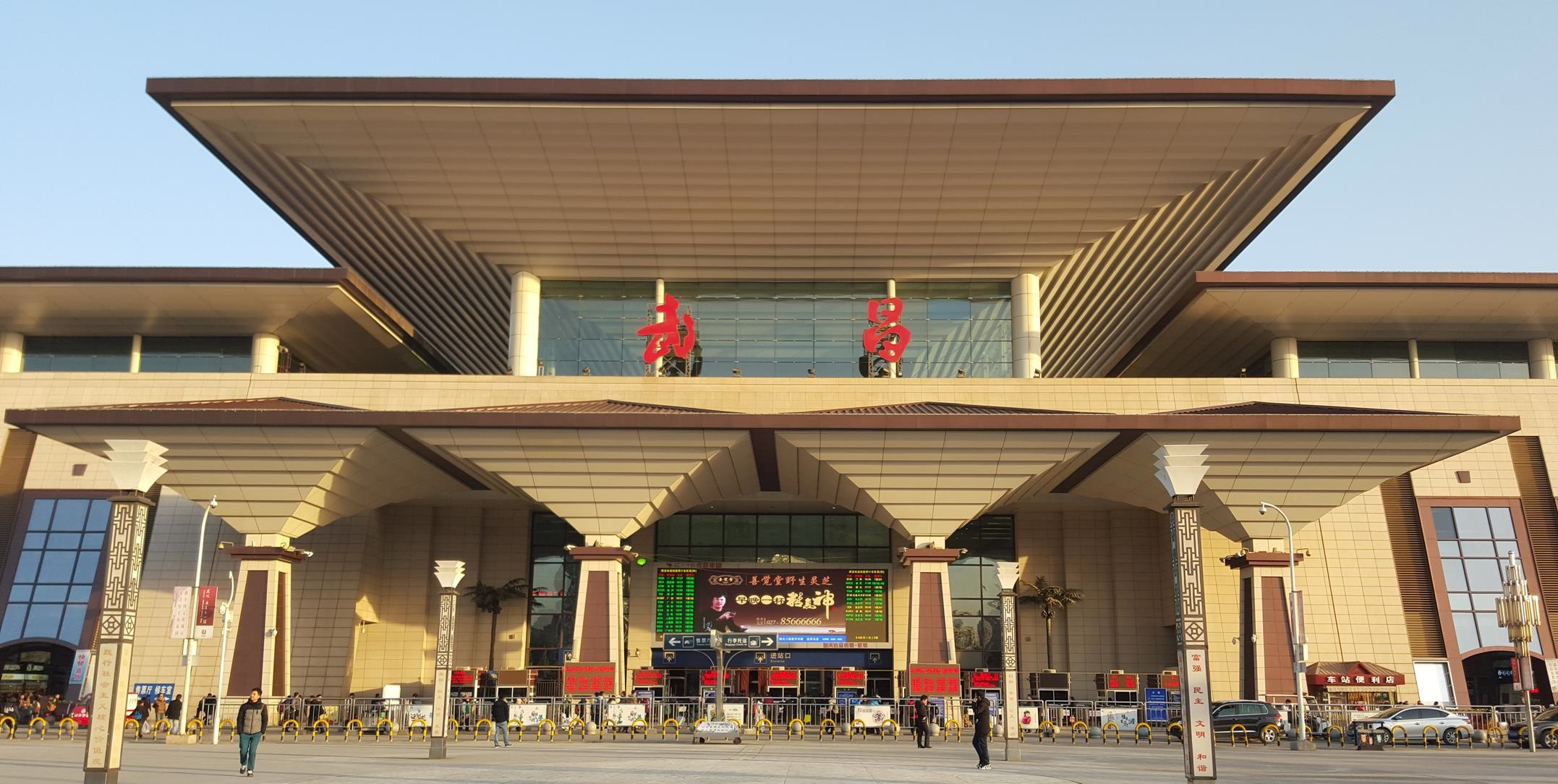 West Gate of Wuchang Railway Station